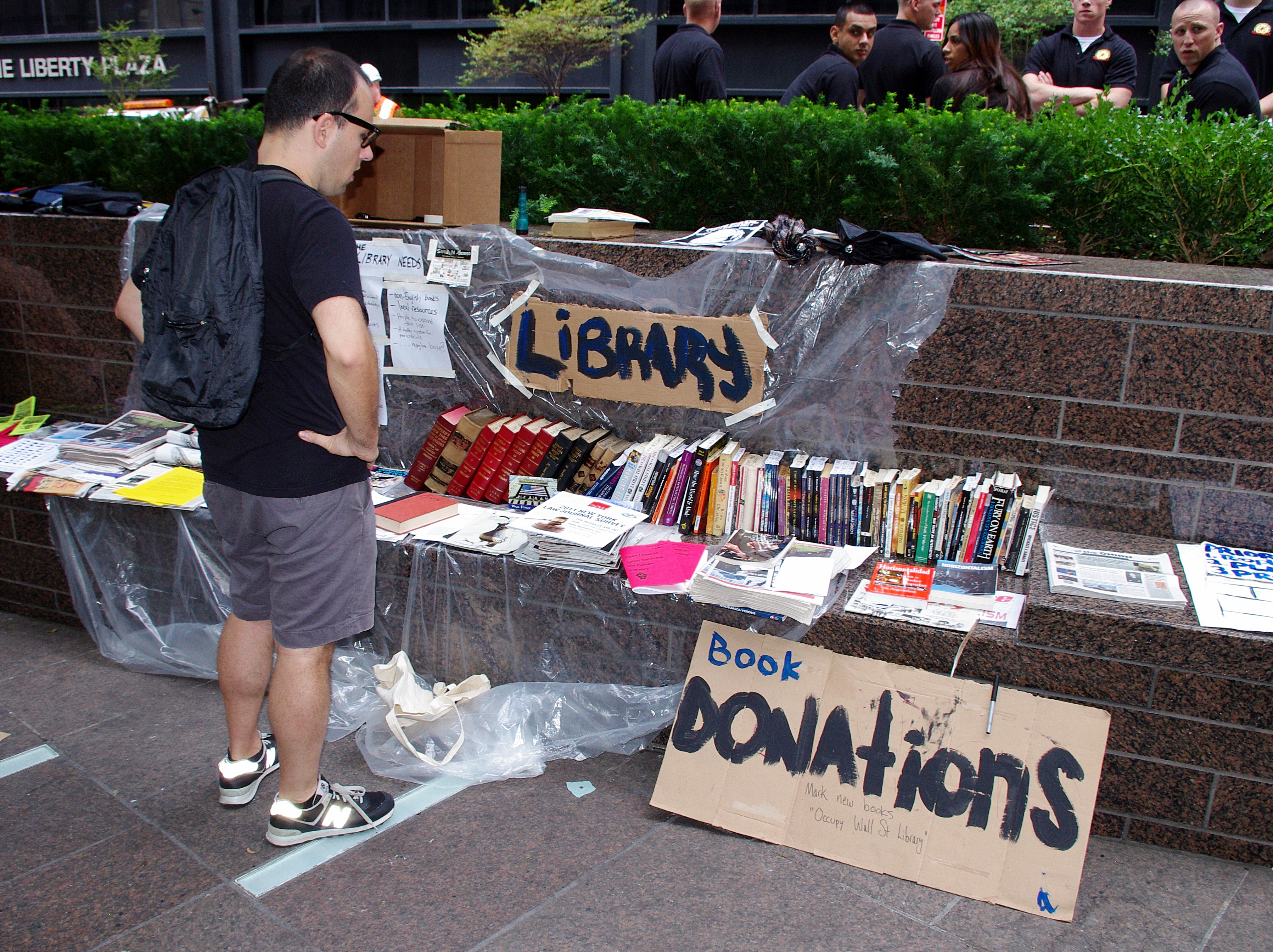 Photographs of Occupy Wall Street from Zuccotti Park on Day 9, September 25. Wall Street remains closed to the public.